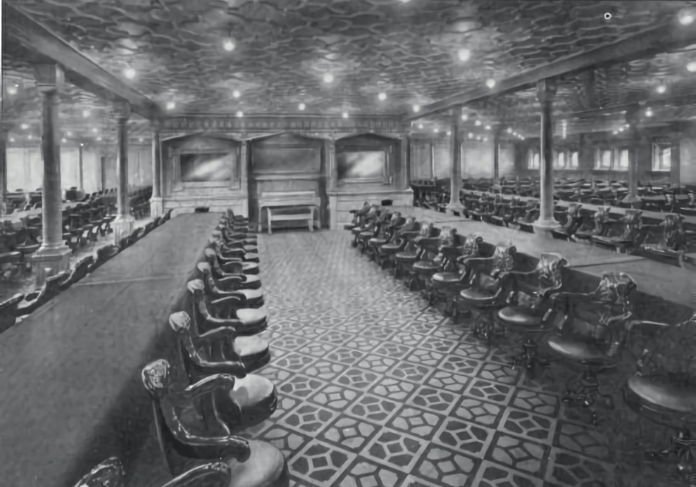 Second class dining room on the Olympic, Titanic 's sistership